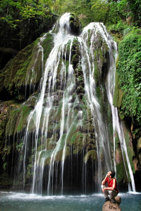 Kaboud-val Waterfall in Aliabad-e Katul City